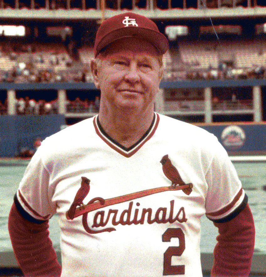 Cardinal Hall of Famer Red Schoendienst.